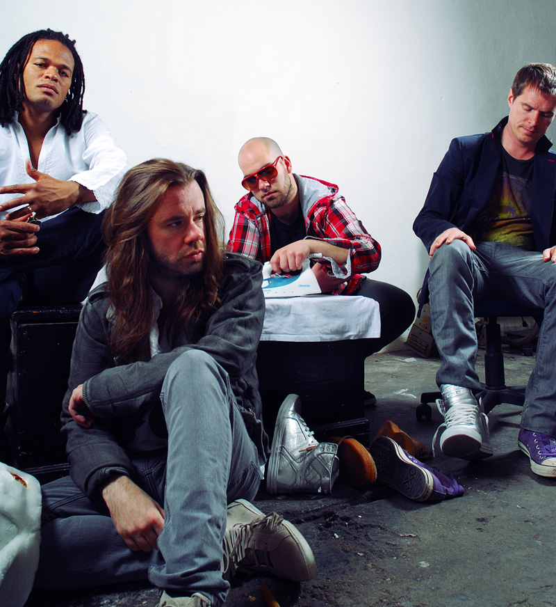 Photo by Lucy Clarke